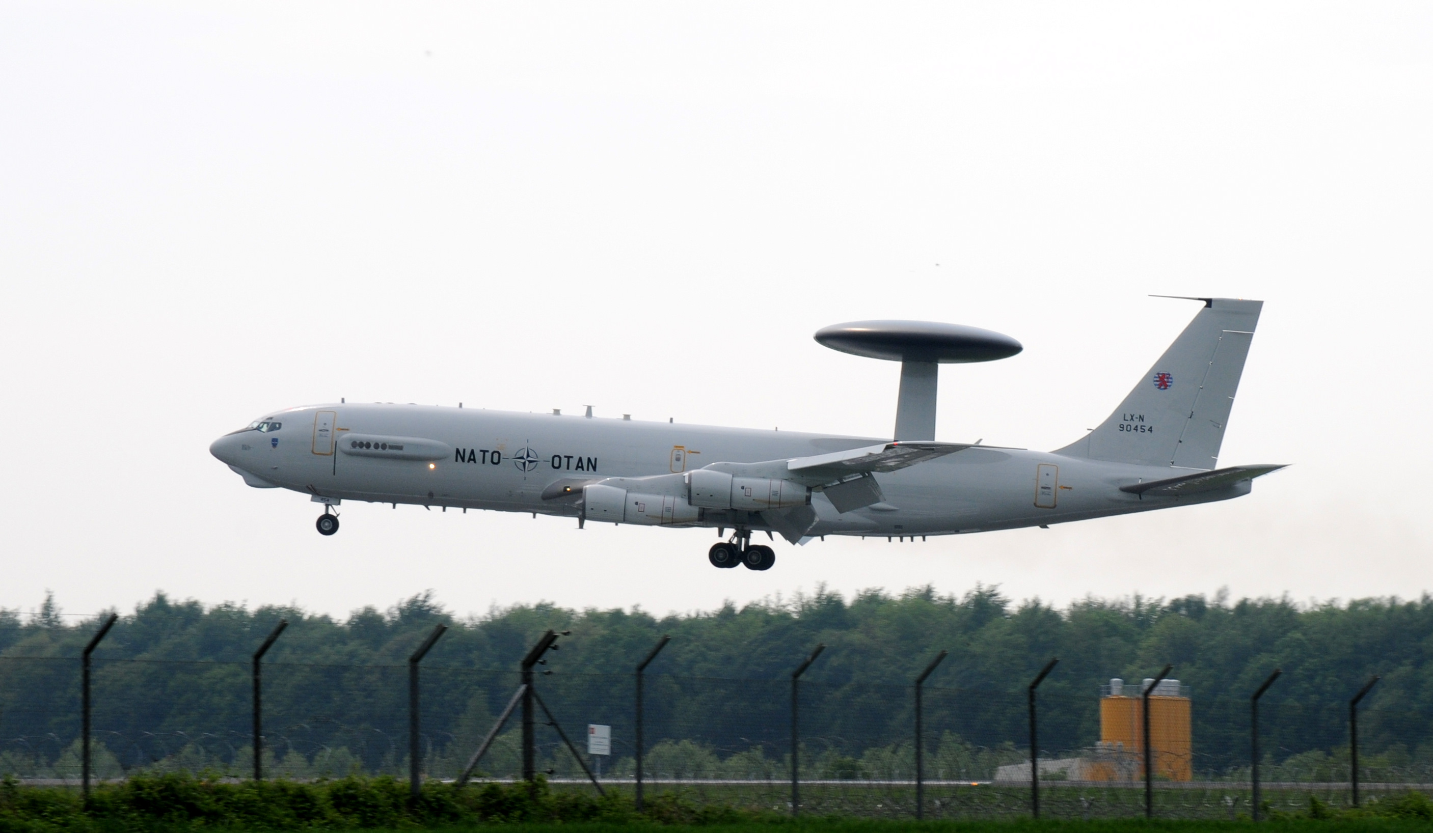 A NATO Boeing E-3 "Sentry" (LX-N90454), carrying the roundel of Luxembourg, in a touch and go at Luxembourg airport